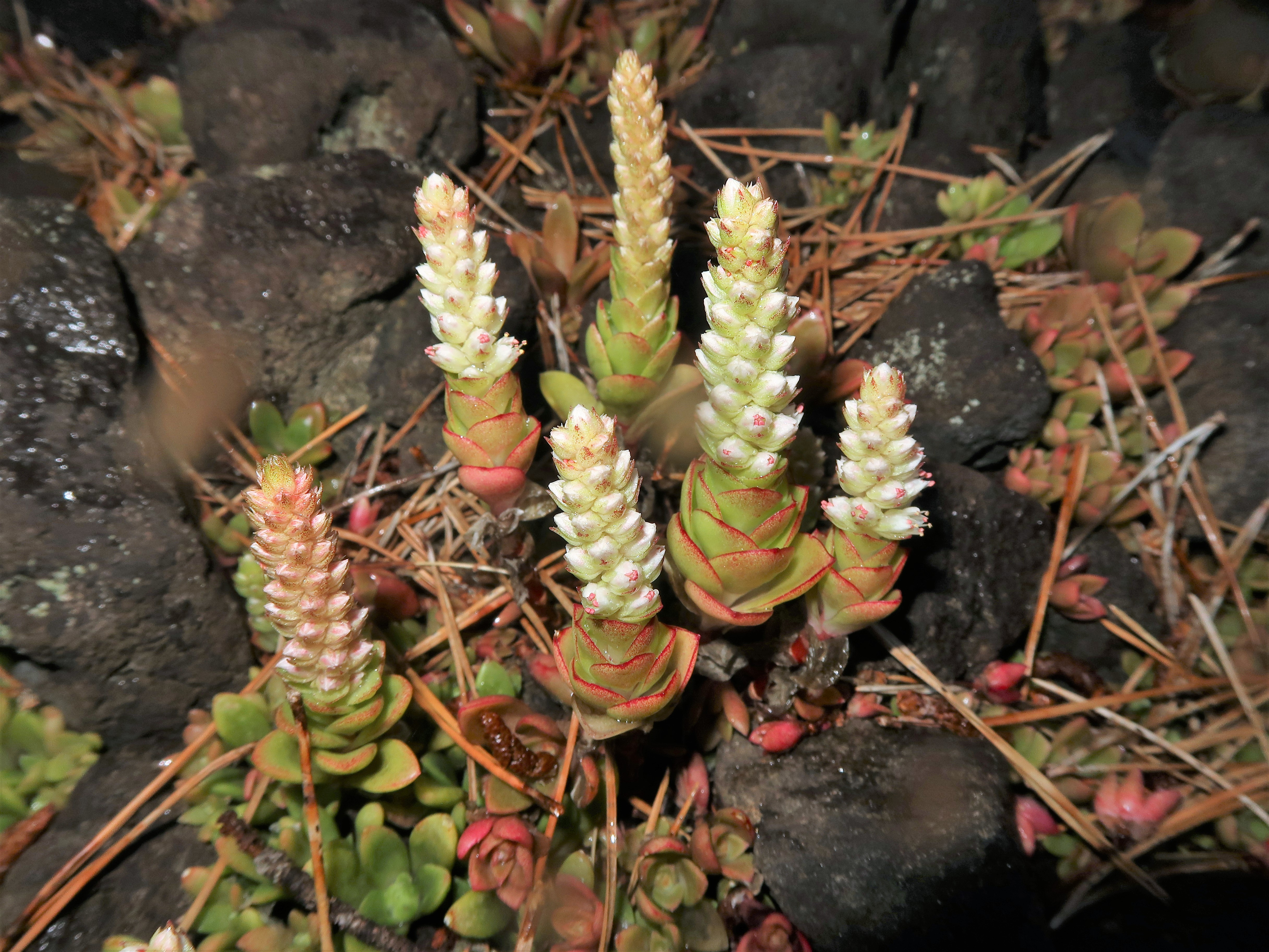 Orostachys malacophylla var. aggregeata, Shimokita peninsula, Aomori pref., Japan